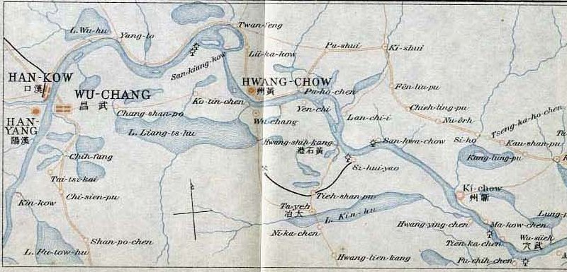 A section of a 1915 map of Yangtze Valley, showing the section from Wuchang to Wuxue, i.e. some 100 km downstream (south-east) from Wuhan, The area shown is currently within "prefecture-level cities" of Wuhan (both sides), Ezhou (right bank), Huangshi (right bank), and Huanggang (left bank). Notice that Ezhou is confusingly called "Wuchang" (the small Wuchang across the river from Huanggang, and some scores of miles east of the big Wuchang)